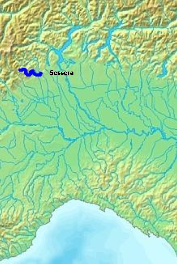 Sessera creek location (BI, VC - Italy)